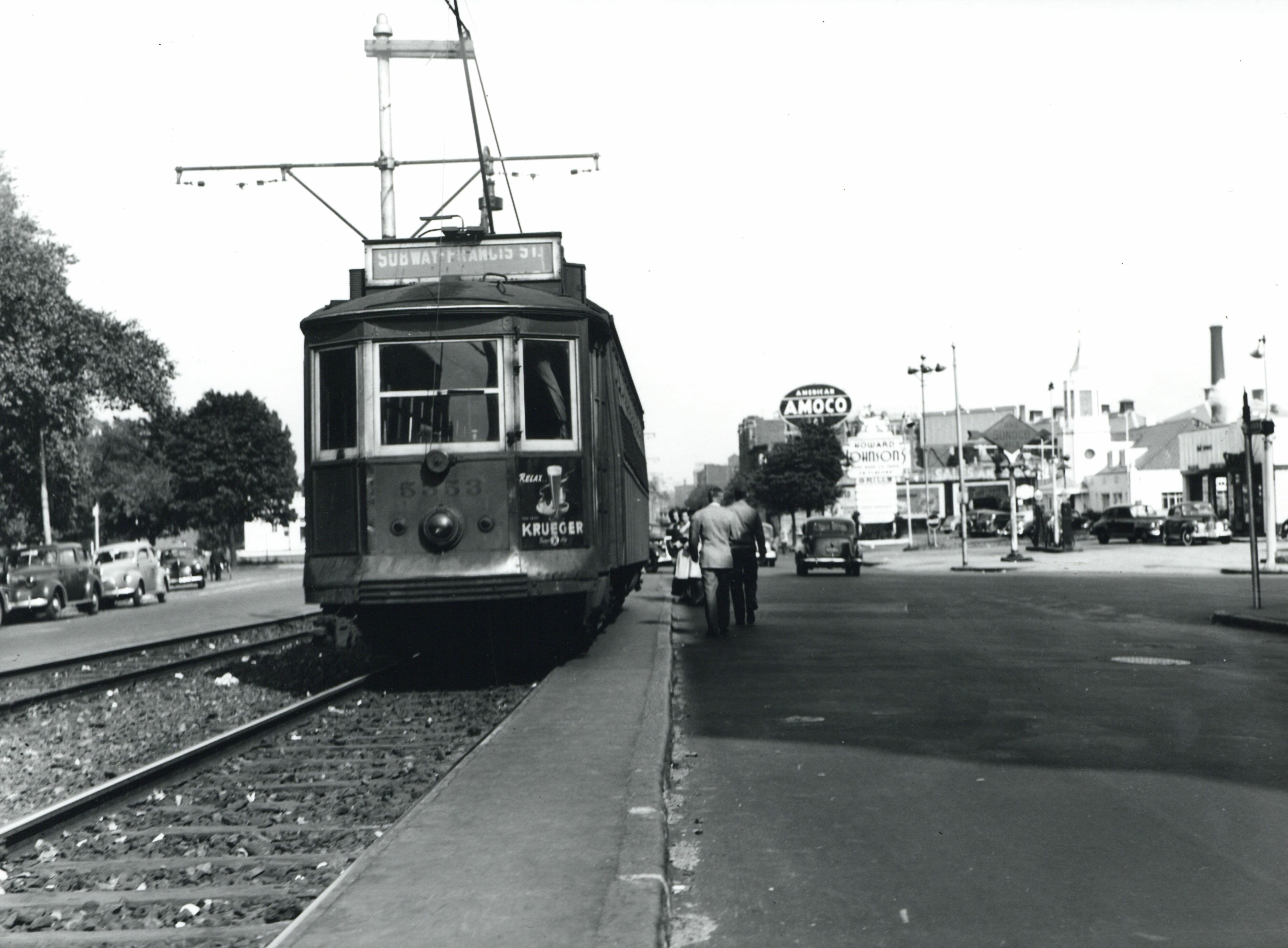 An inbound car from the Francis Street (Brigham Circle) turnback on Huntington Avenue at Ward Street in 1942